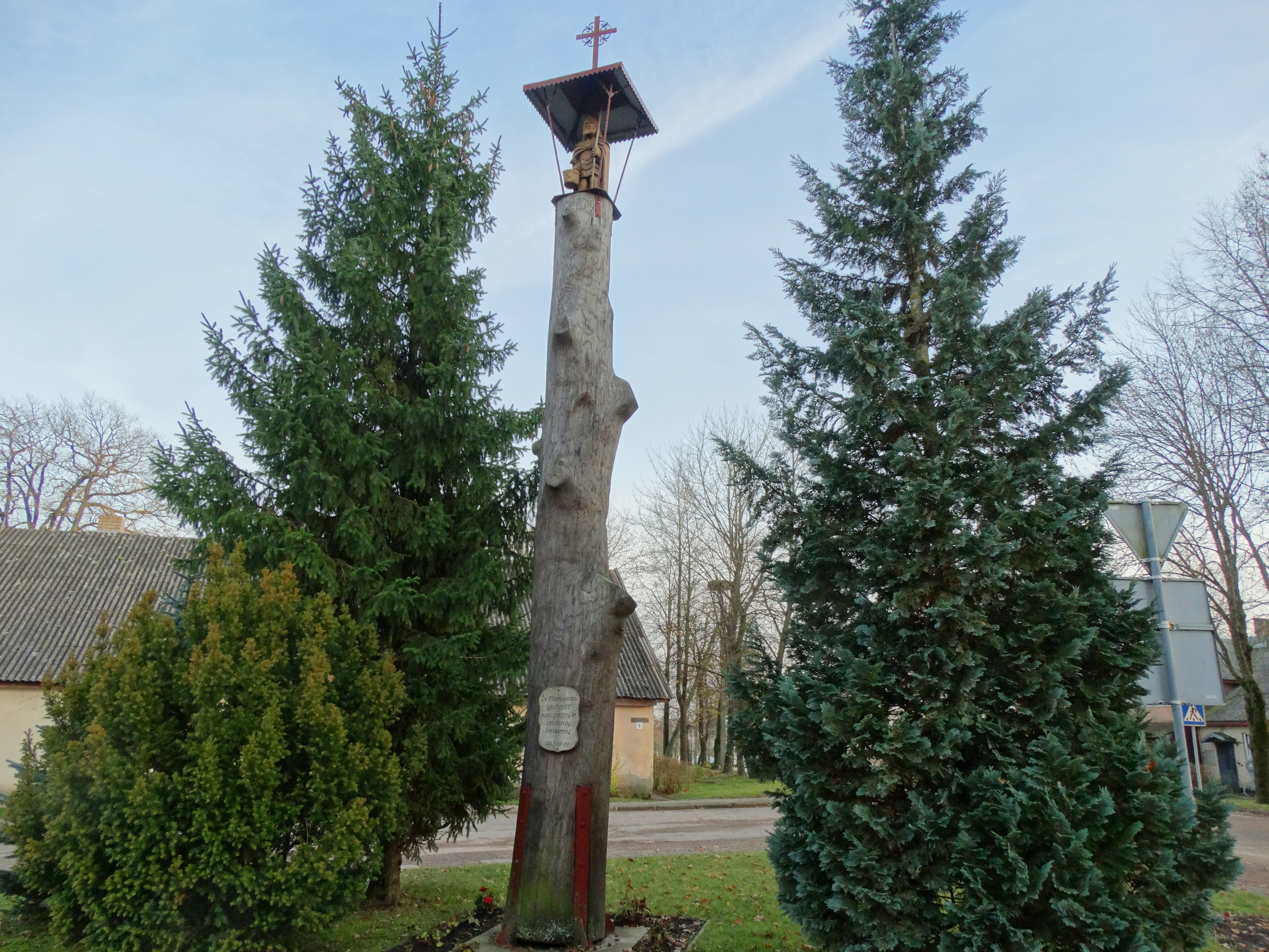 Natkiškiai, Pagėgiai Municipality, Lithuania